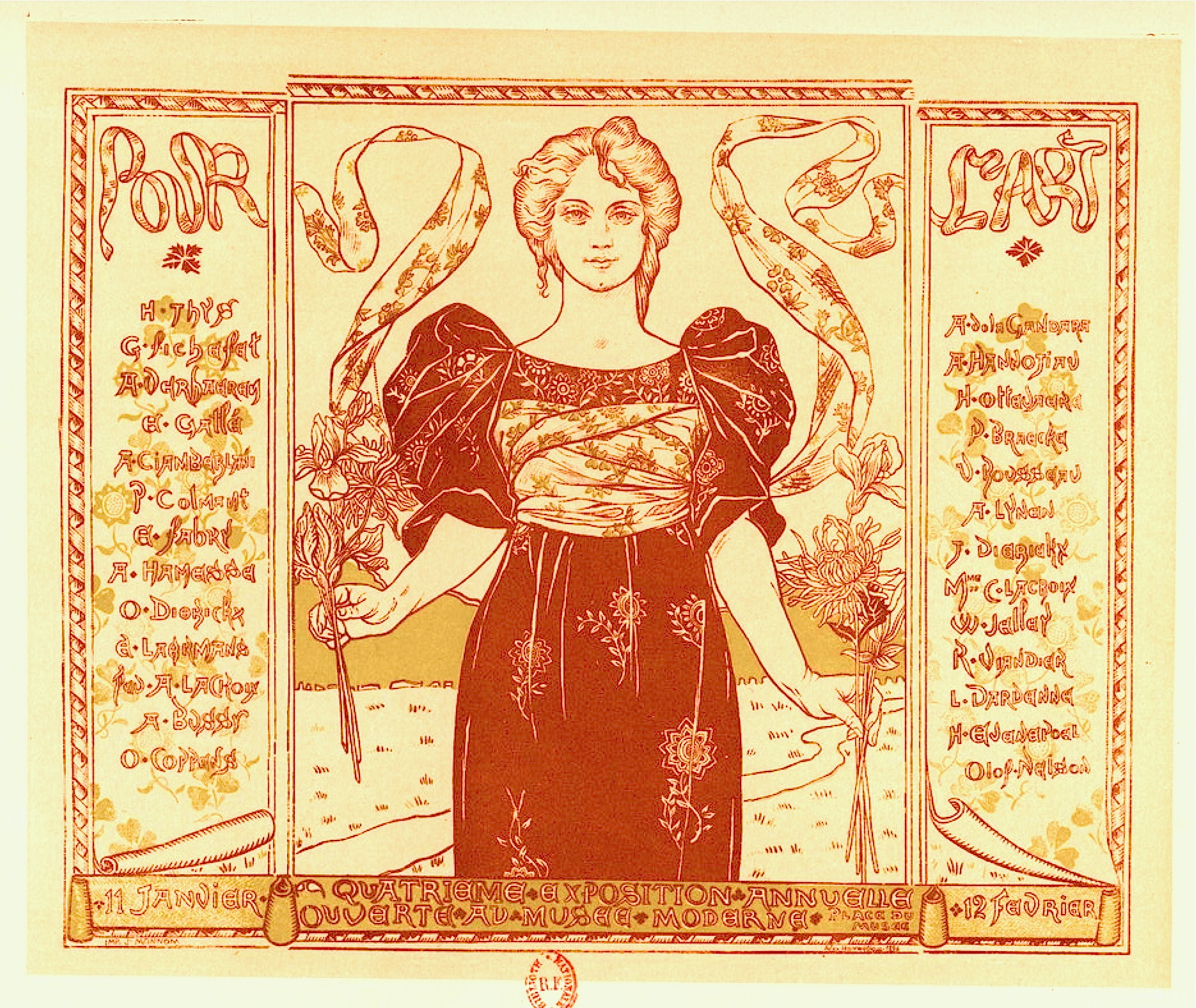 Lithographic fac simile poster of Pour l'art, designed by Alexandre Hannotiau (printed in Bruxelles).